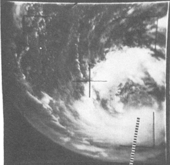 The frame gives perhaps the best view of Wanda. This frame indicates that the center of circulation lies within the overcast cloudy area of the southernmost overcast cloud group.